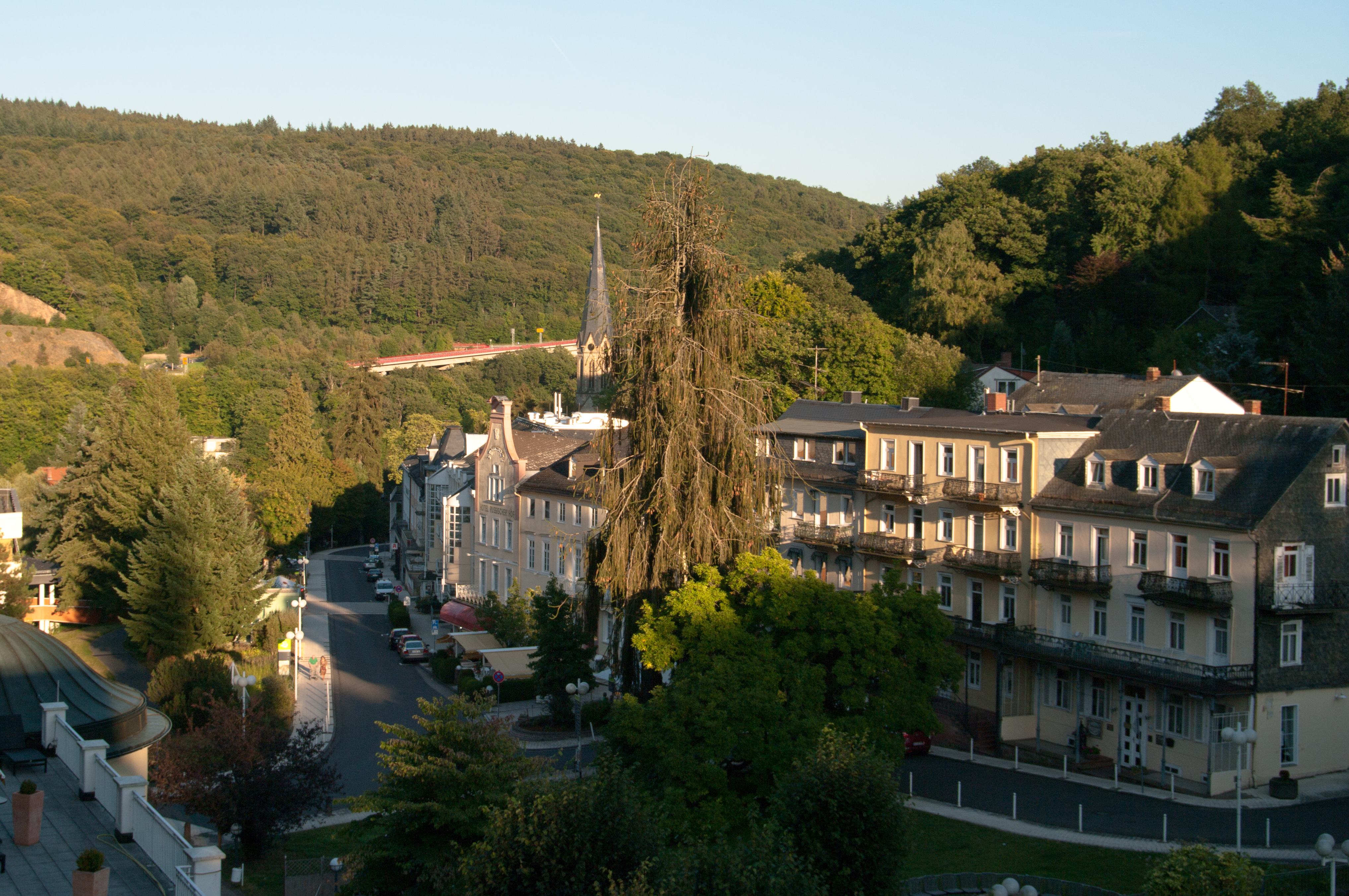 Schlangenbad downtown on an early morning in autumn.